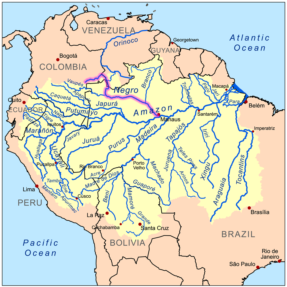 This is a map of the Amazon River drainage basin with the Rio Negro highlighted.